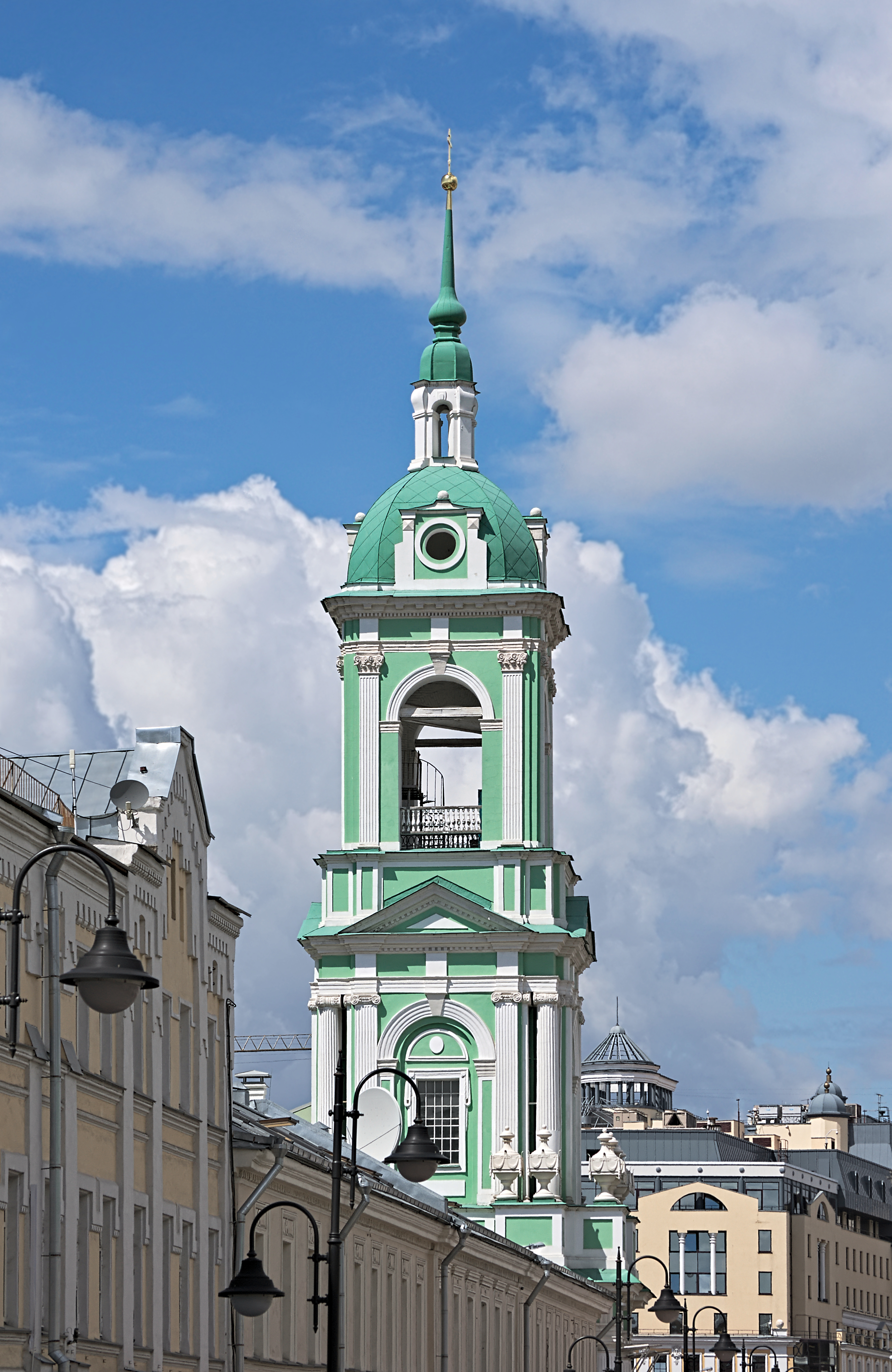 Moscow. The bell tower of the Church of the Beheading of John the Baptist at the Pine Forest. The end of the 18th century. A view from Pyatnitskaya Street towards the Chugunny bridge.